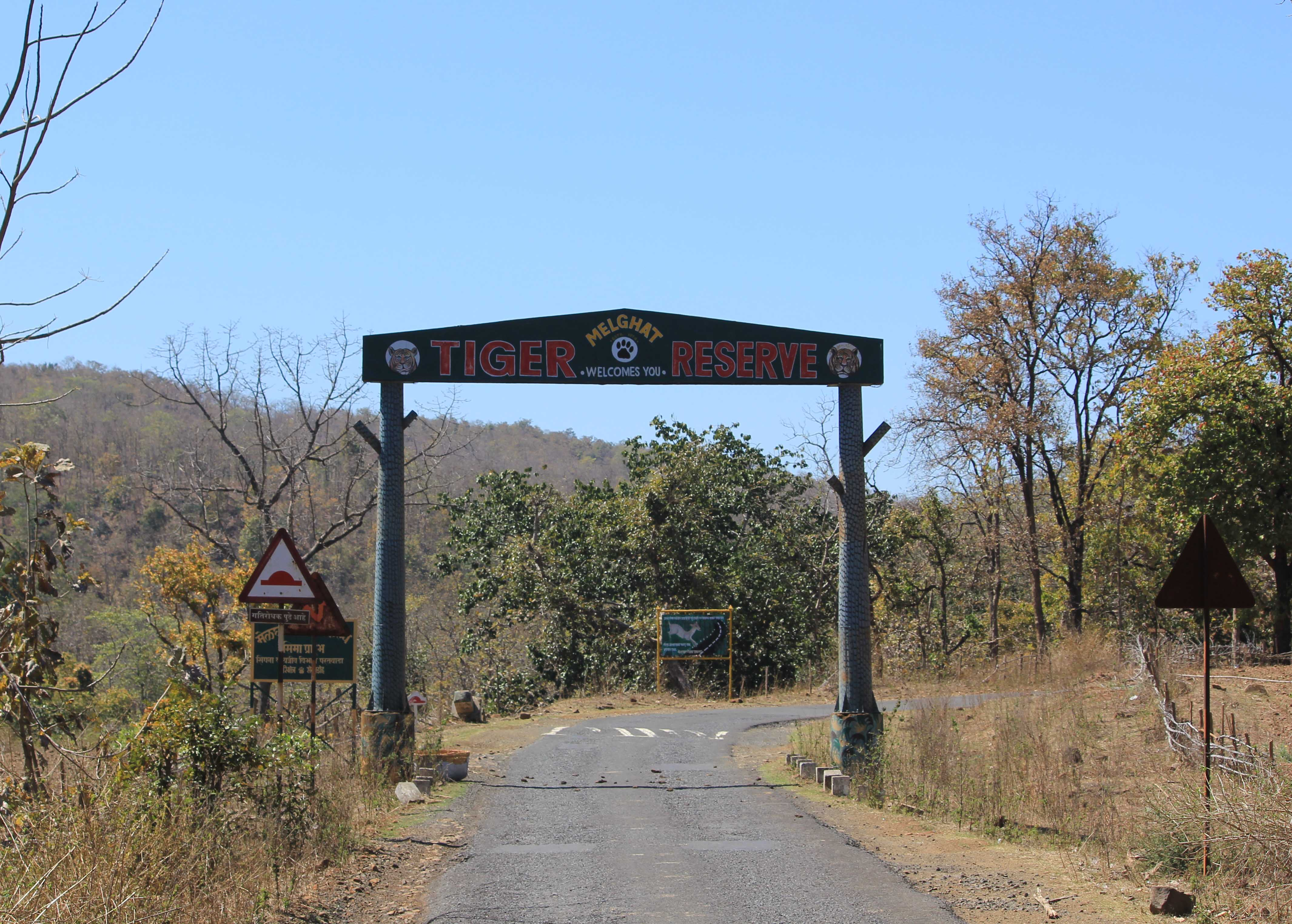 Entry gate of Melghat Tiger Reserve par the stone bridge.